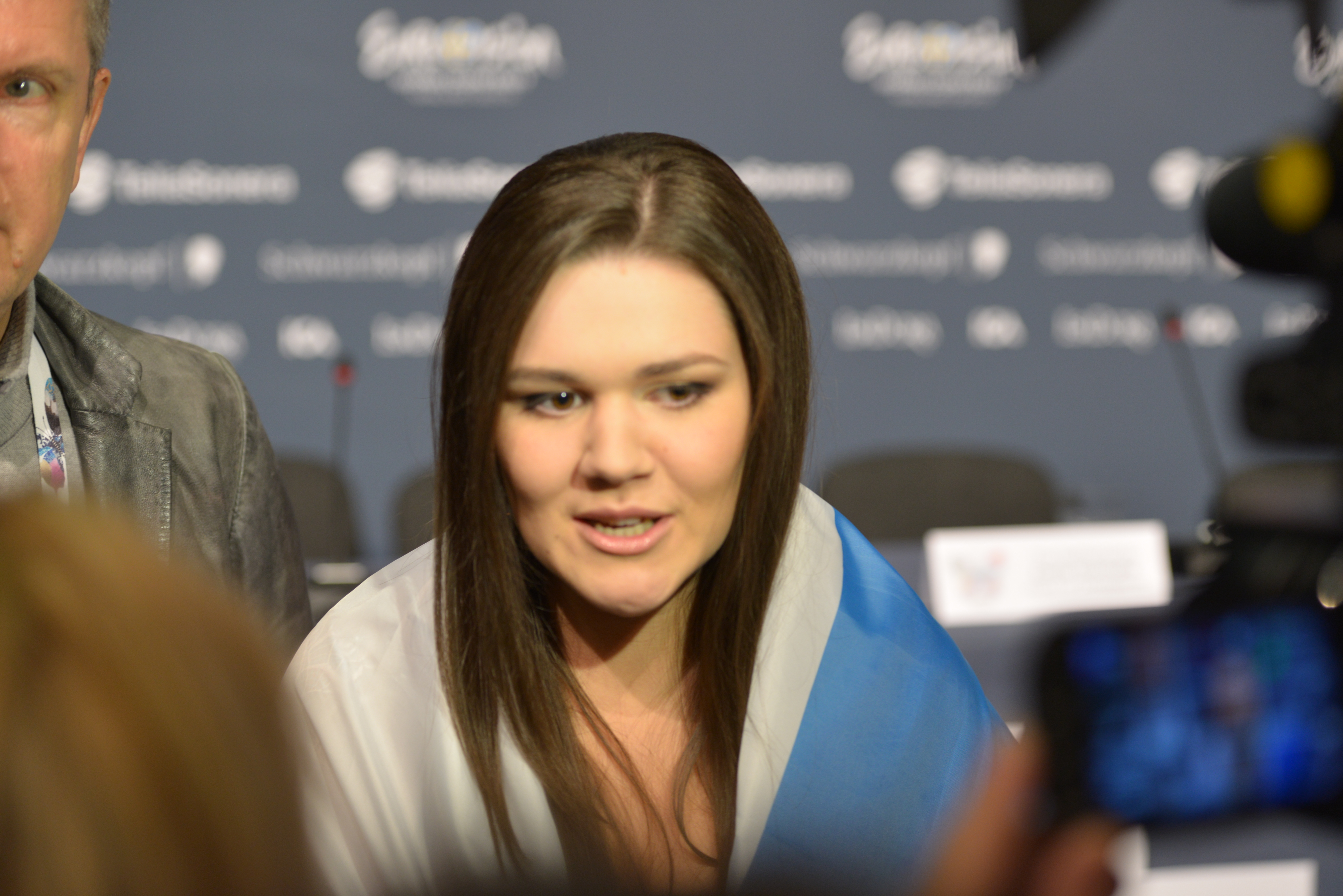 Dina Garipova at a press conference during the Eurovision Song Contest 2013 in Malmö. (Help translate this text)